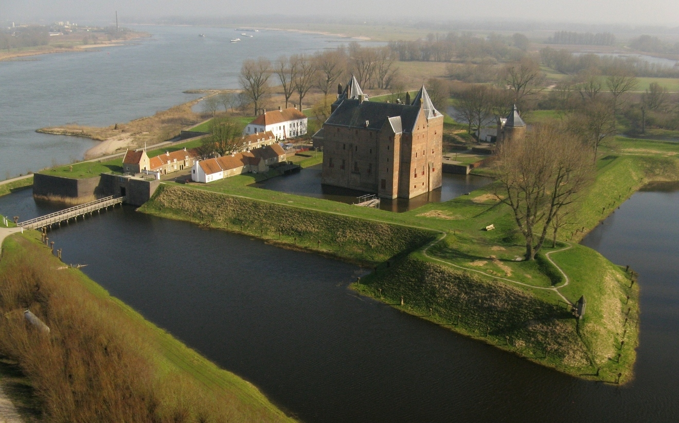 Castle Loevestein. Aerial photograph